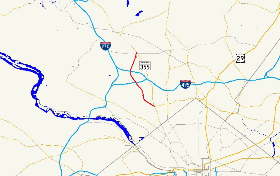 Map of Maryland Route 187